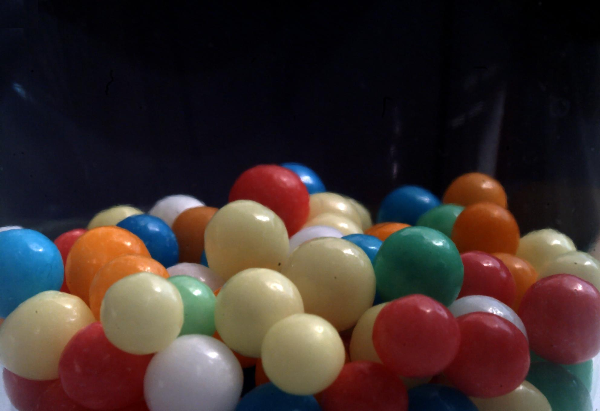 Closeup of „Liebesperlen“ sweets (love pearls). The love pearls are small speric dragées made of sugar. They have a diameter of only a few millimeters each and were invented at the end of the 19th century by Rudolf Hoinkis, a candy manufacturer who lived in Görlitz (Eastern Germany).